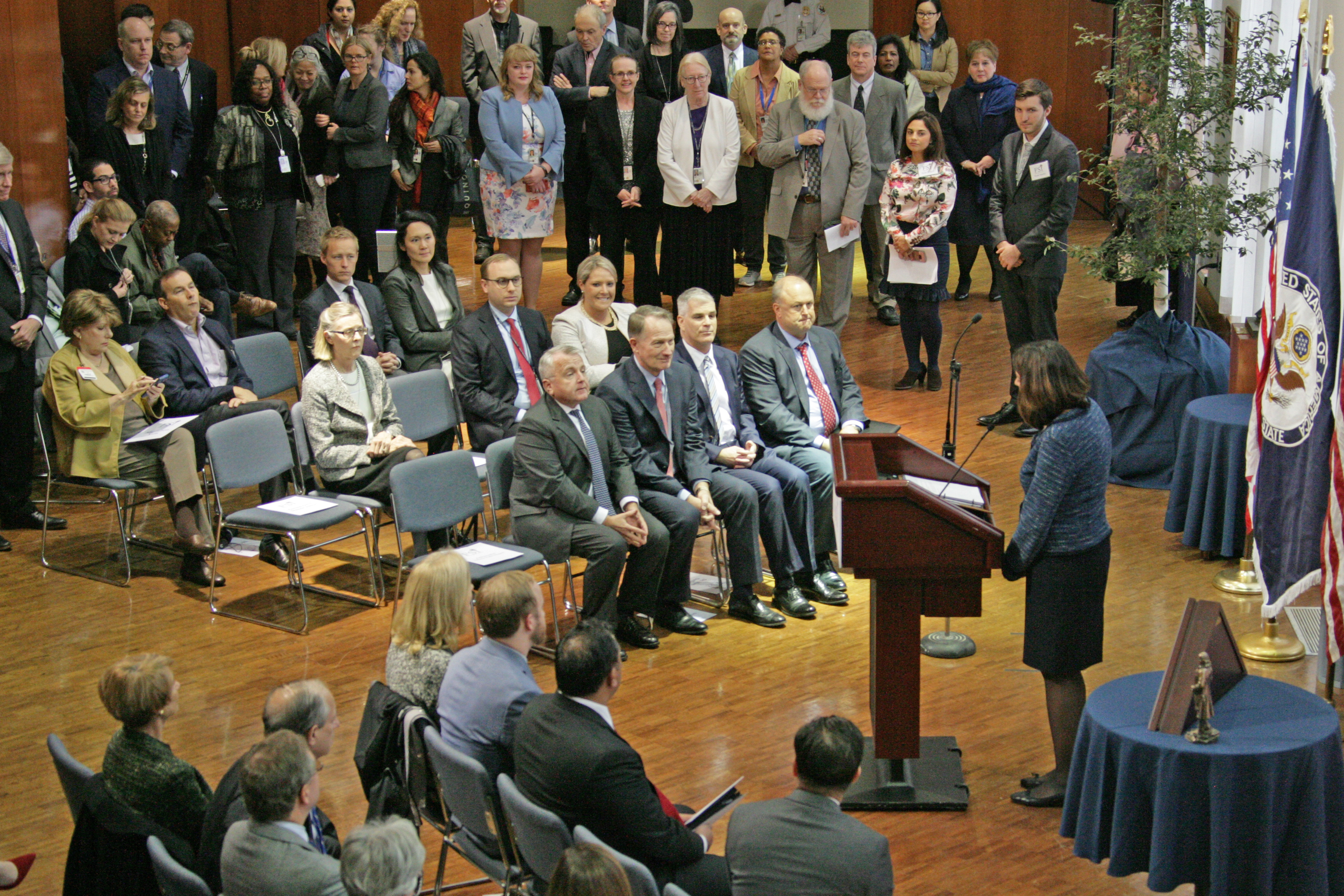 Deputy Secretary John Sullivan and Ambassador Dan Smith listen as Deputy Director of the Foreign Service Institute Julieta Valls Noyes delivers remarks at Ambassador Smith’s swearing-in ceremony, at the George P. Shultz National Foreign Affairs Training Center, in Arlington, Virginia, on October 26, 2018. [State Department photo/ Public Domain]